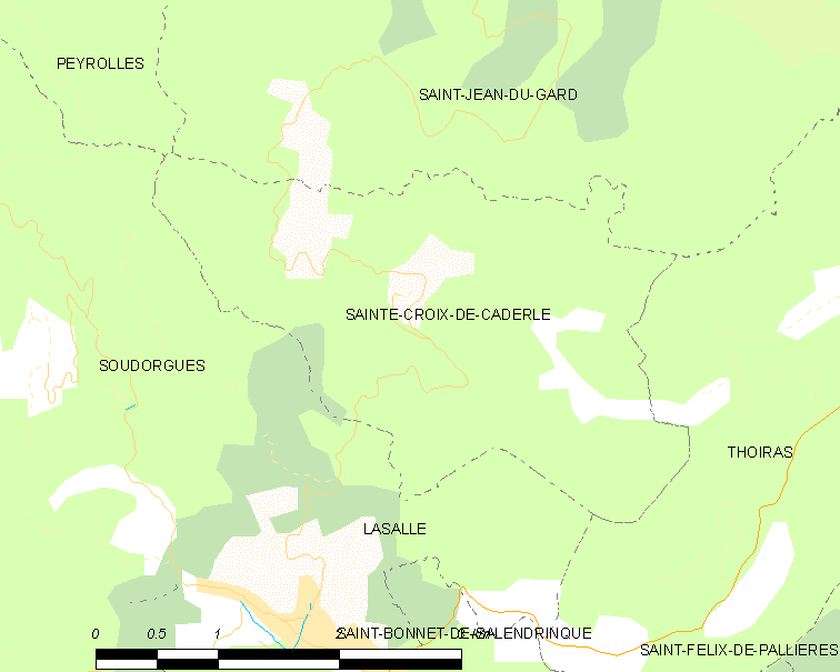 Map commune FR insee code 30246.png - Sainte-Croix-de-Caderle